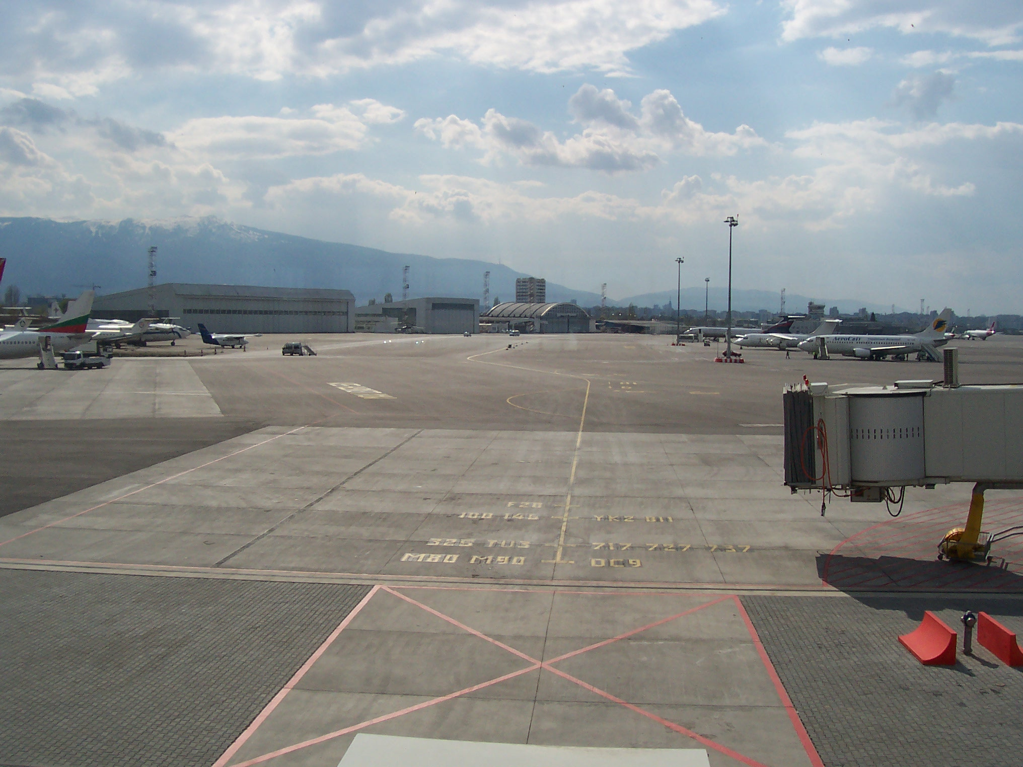 The taxiway and hangars in front of terminal 2 of Sofia Airport, Bulgaria.